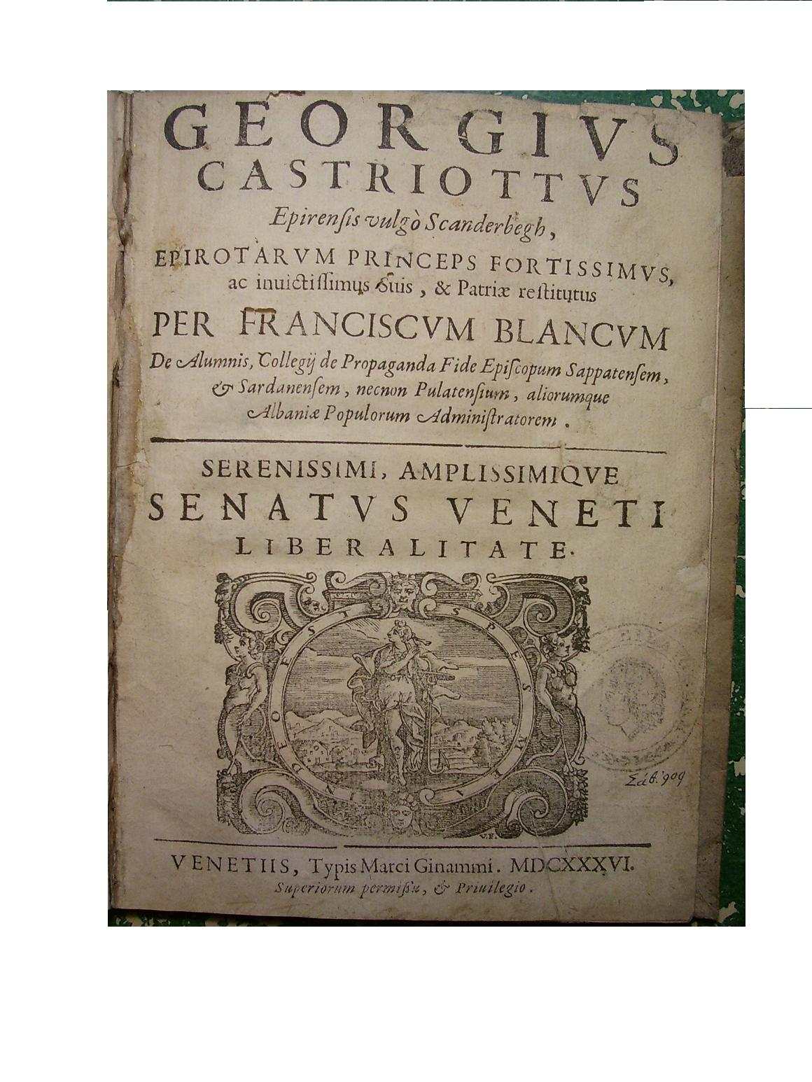 Engraved front-page of Biography of Georgius Castriotus or Castriotis published in Venice in 1636. Book is by Franciscus Blancus, a Catholic bishop and author from Albania.